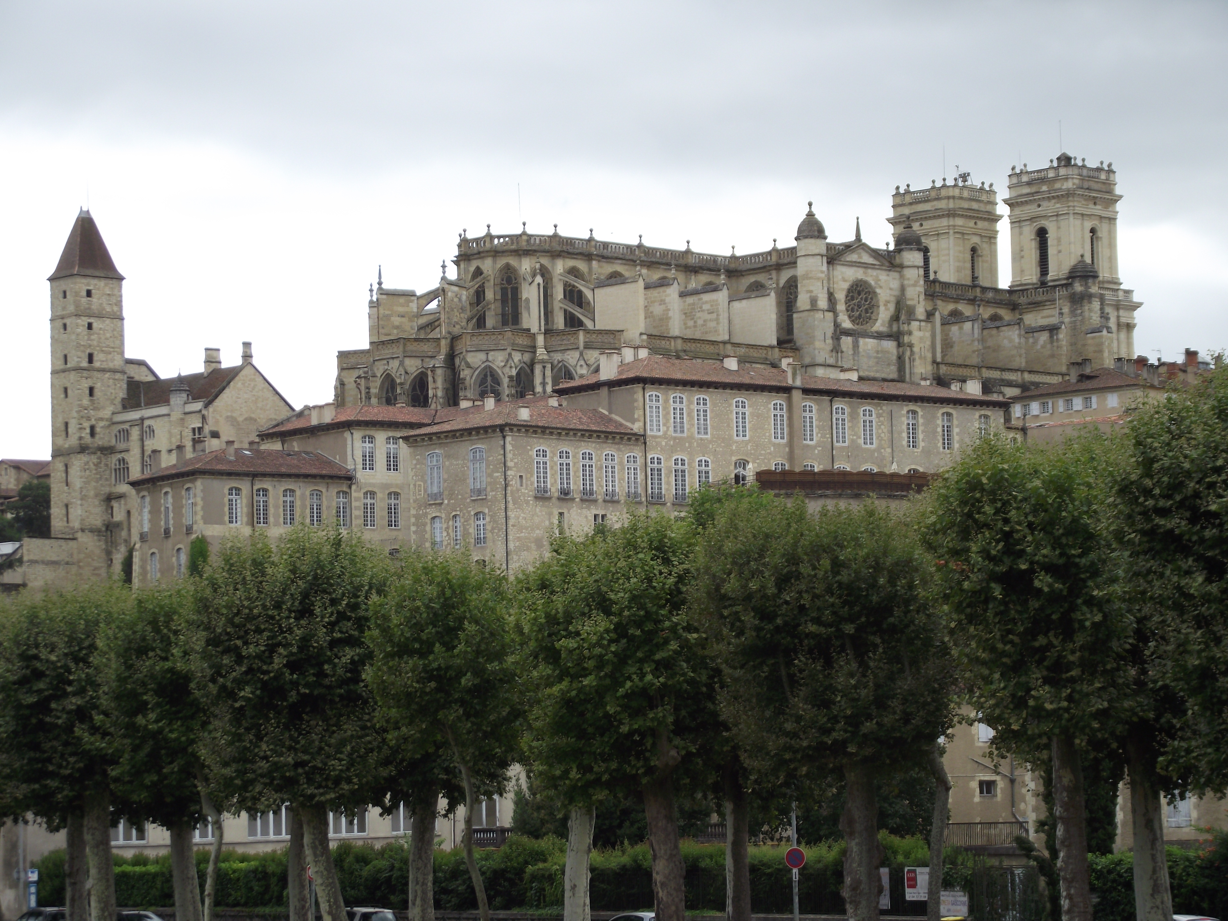 Auch, Saint Mary's Cathedral, 1489-1680